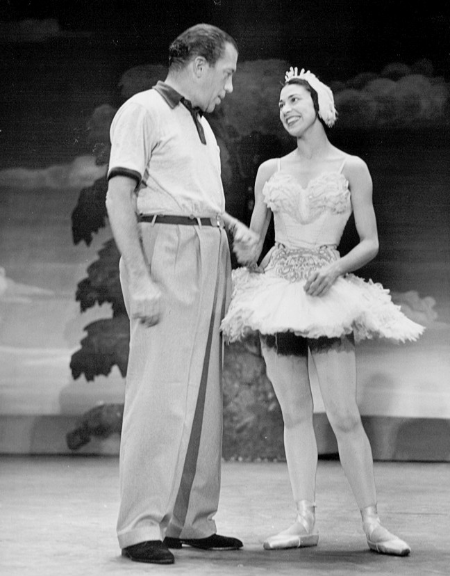 Photo of Ed Sullivan and Margot Fonteyn from his variety show The Toast of the Town which was later retitled The Ed Sullivan Show.